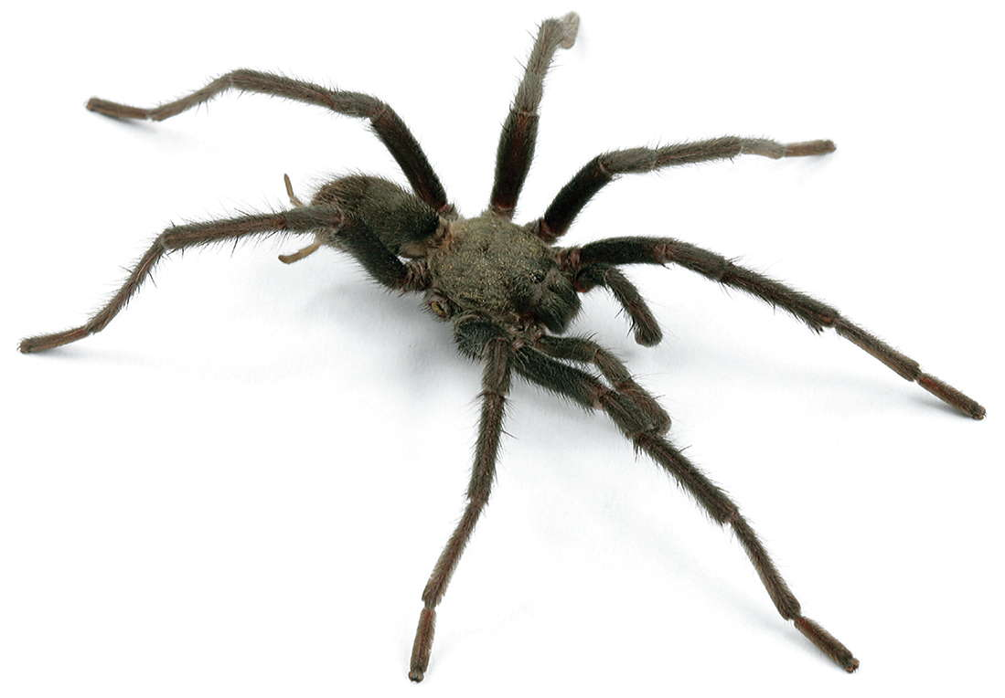 Aphonopelma xwalxwal male